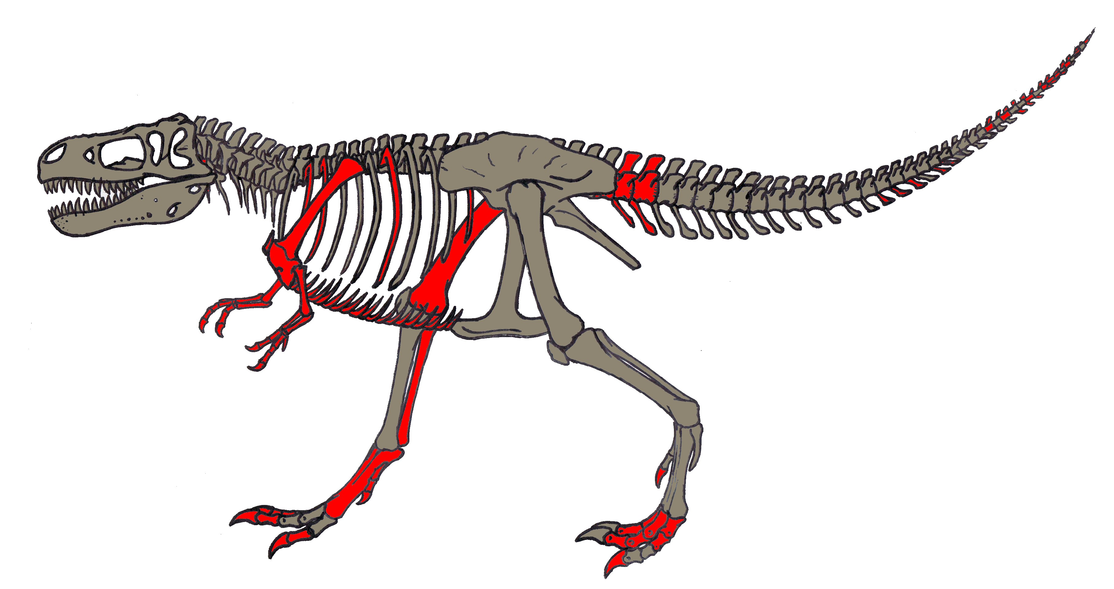 Illustration showing skeletal material known from the Tyrannosaurus rex specimen BHI3033, or popular called "Stan" after it's discoverer Stan Sacrison, who discovered it in Hell Creek Formation 1987. Missing bones coloured in red.